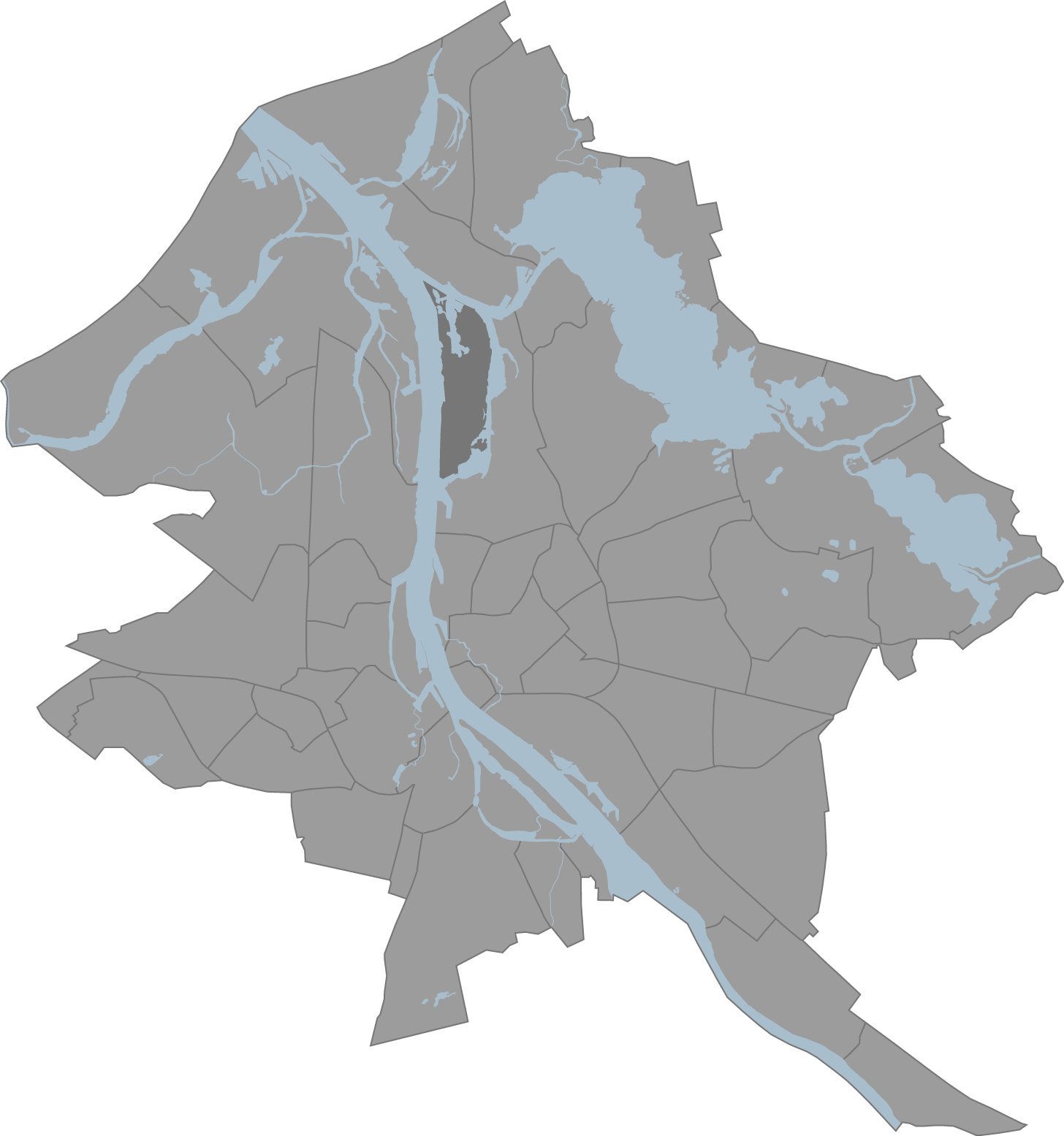 A map of Riga, Latvia with the eponymous commune highlighted